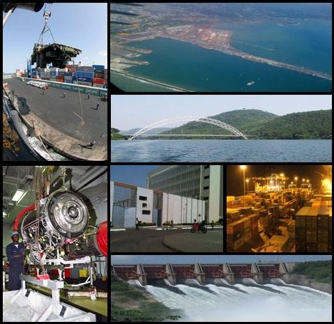 1. Ship Fort McHenry being unloaded at a Ghana Harbour. 2. A aerial view of Oil platform and Takoradi Harbour in Ghana. 3. Adome Bridge in Ghana. 4. A Ghanaian Aviation Machinist in Ghana. 5. Bank of Ghana building in Ghana. 6. Container terminal at a Harbour in Ghana. 7. Akosombo Dam on the Volta River in Ghana.